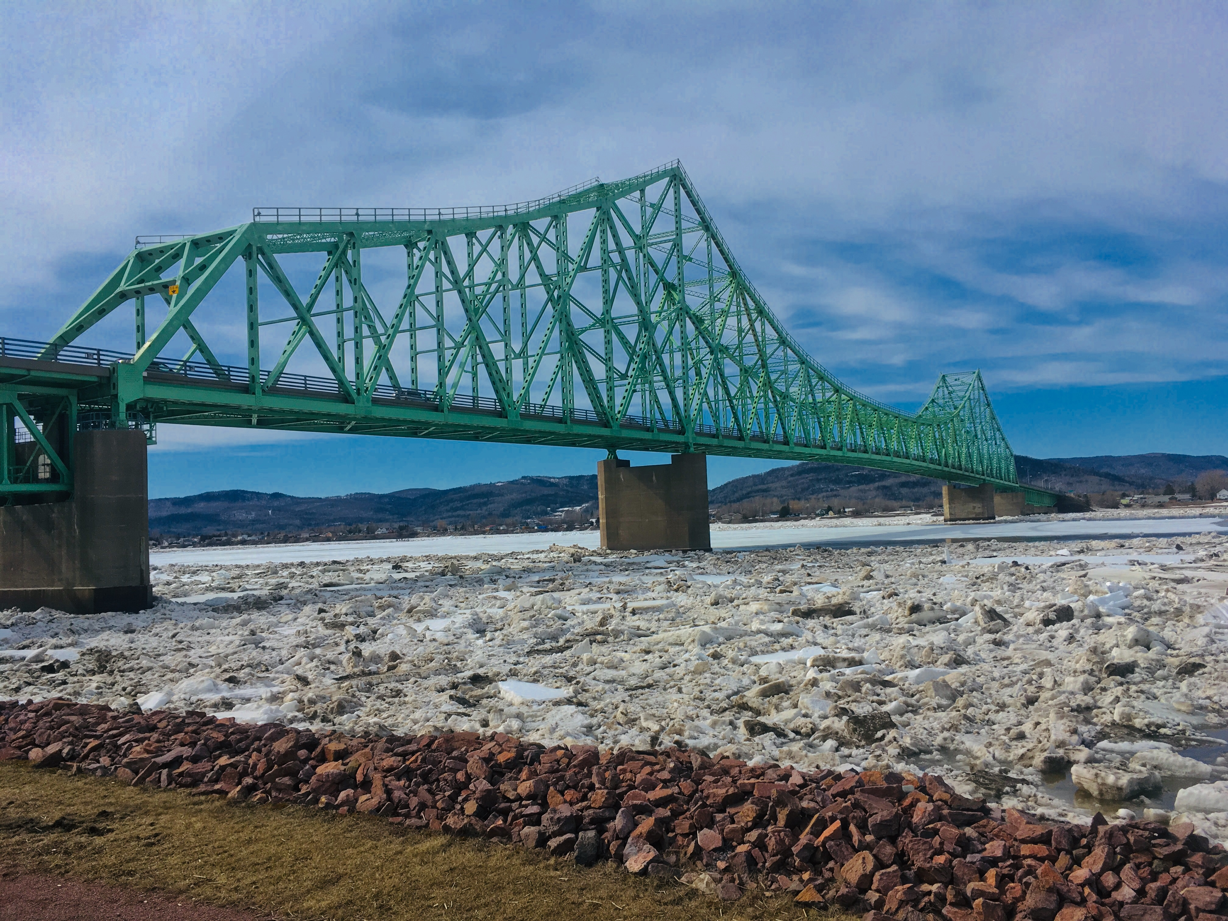 The J.C. Van Horne Bridge, as seen from the trail on the north side of Salmon Boulevard, in Campbellton, facing Quebec.